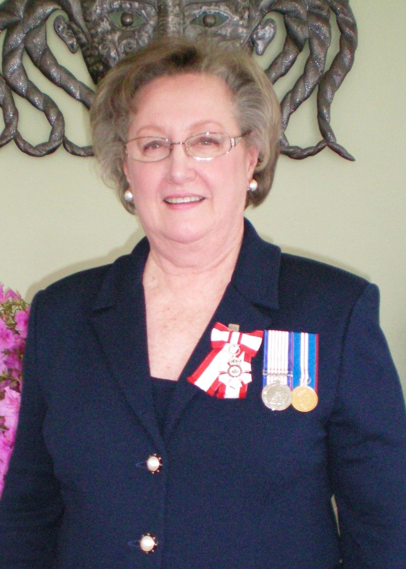 Elizabeth Parr-Johnston wearing the official decorations: 125th Anniversary of the Confederation of Canada Medal, Queen Elizabeth II Golden Jubilee Medal and Order of Canada at Rideau Hall, Ottawa, Ontario, Canada at the 101st Investiture Ceremony for the Order of Canada